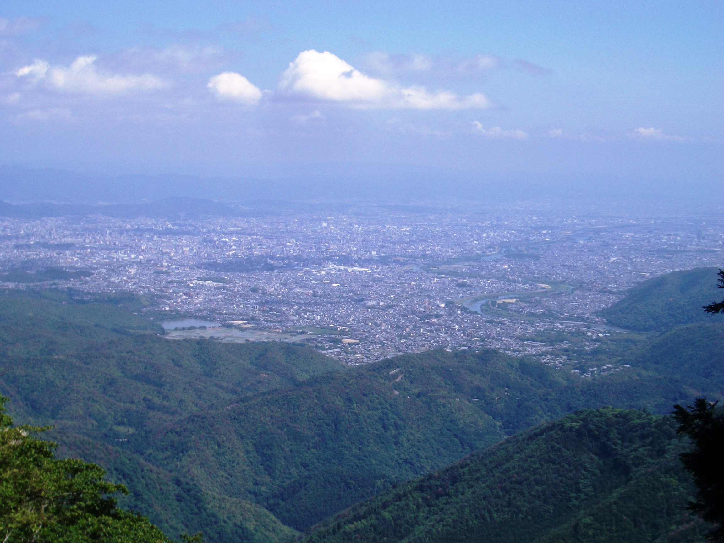 Katsura River and Kyoto City from Mount Atago, Kyoto, Japan.